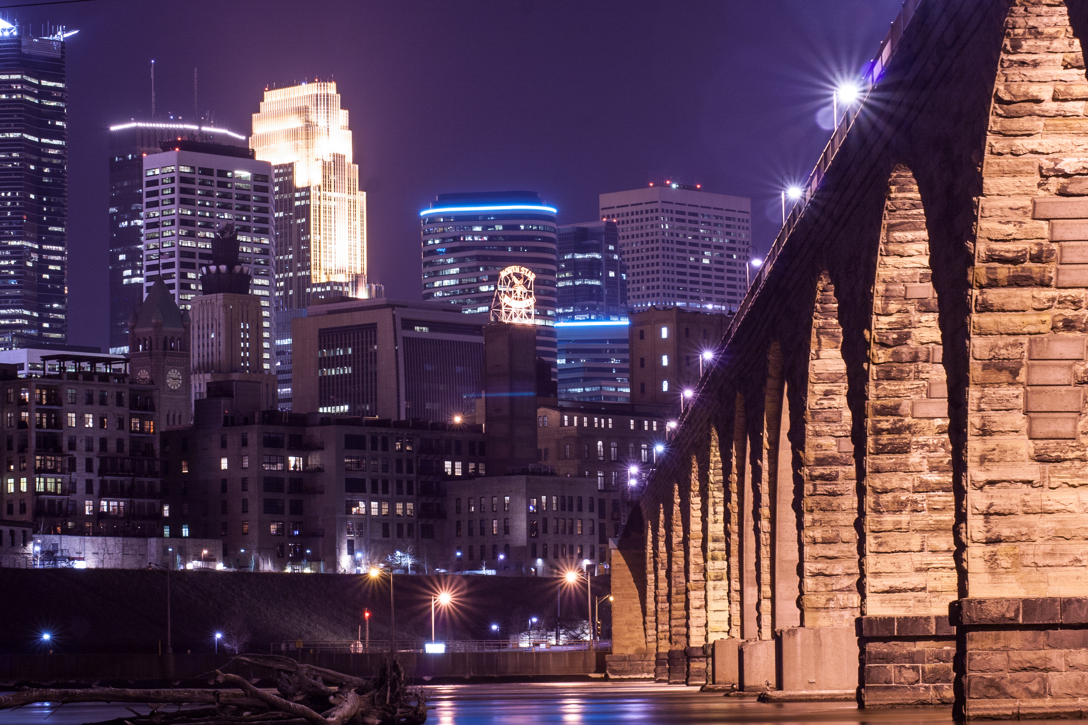 Minneapolis Skyline and Stone Arch